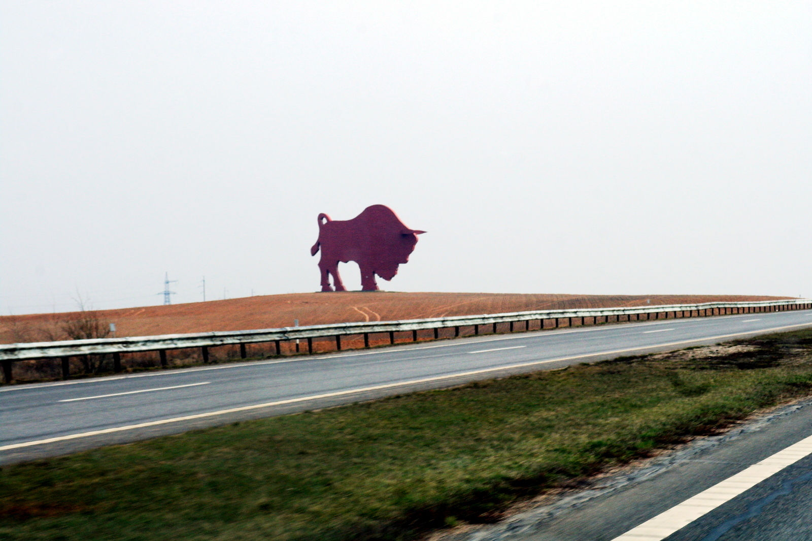 Steel Wisent (European bison), M1 (E30) highway, by the village Pietkavichi, at the interface of the Minsk and Brest Region. Statue weighs several dozen of tons. Wisent is a national symbol of Belarus and a symbol of Brest Region, too.